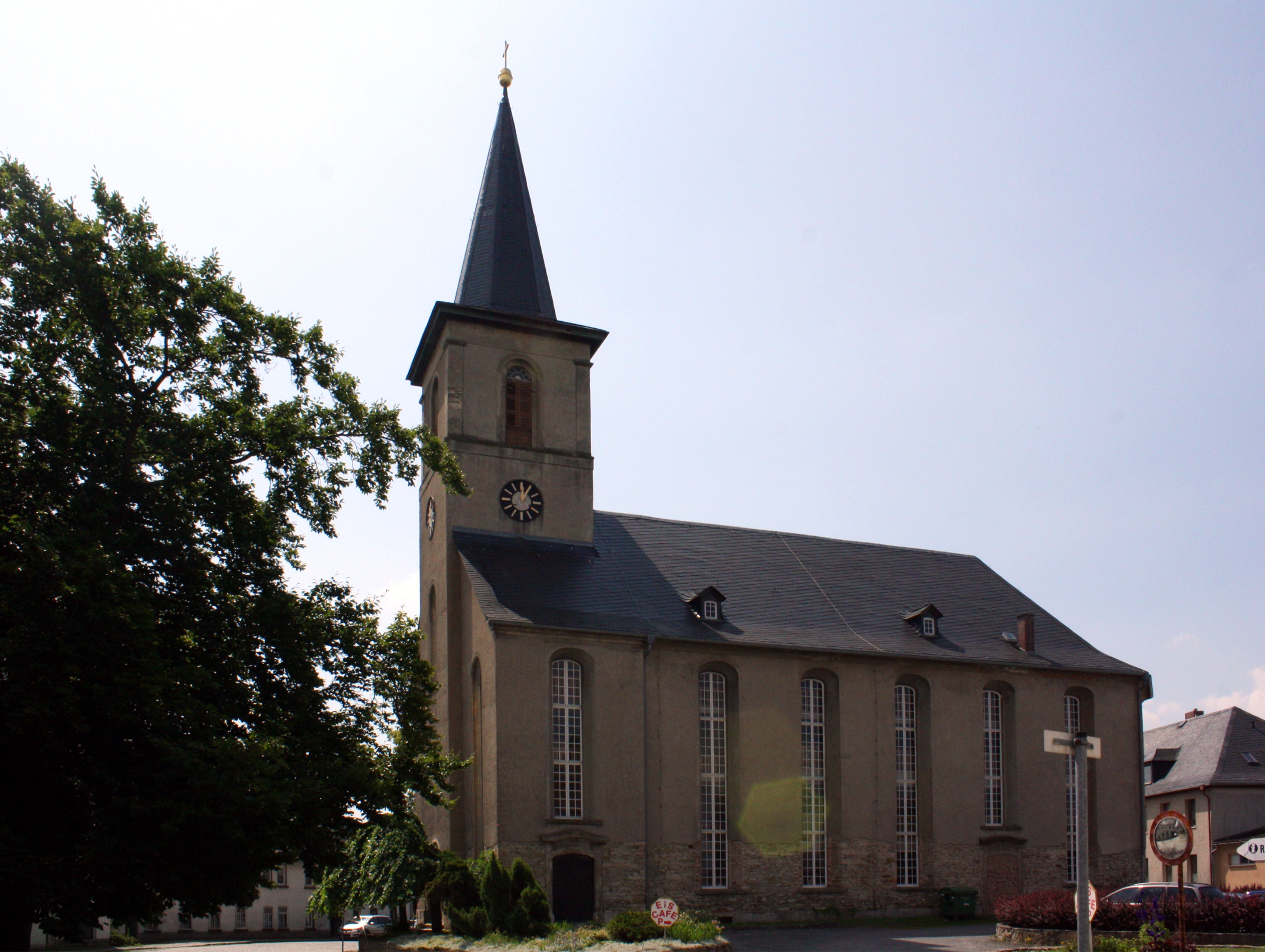 Church in Hohenleuben near Greiz/Thuringia